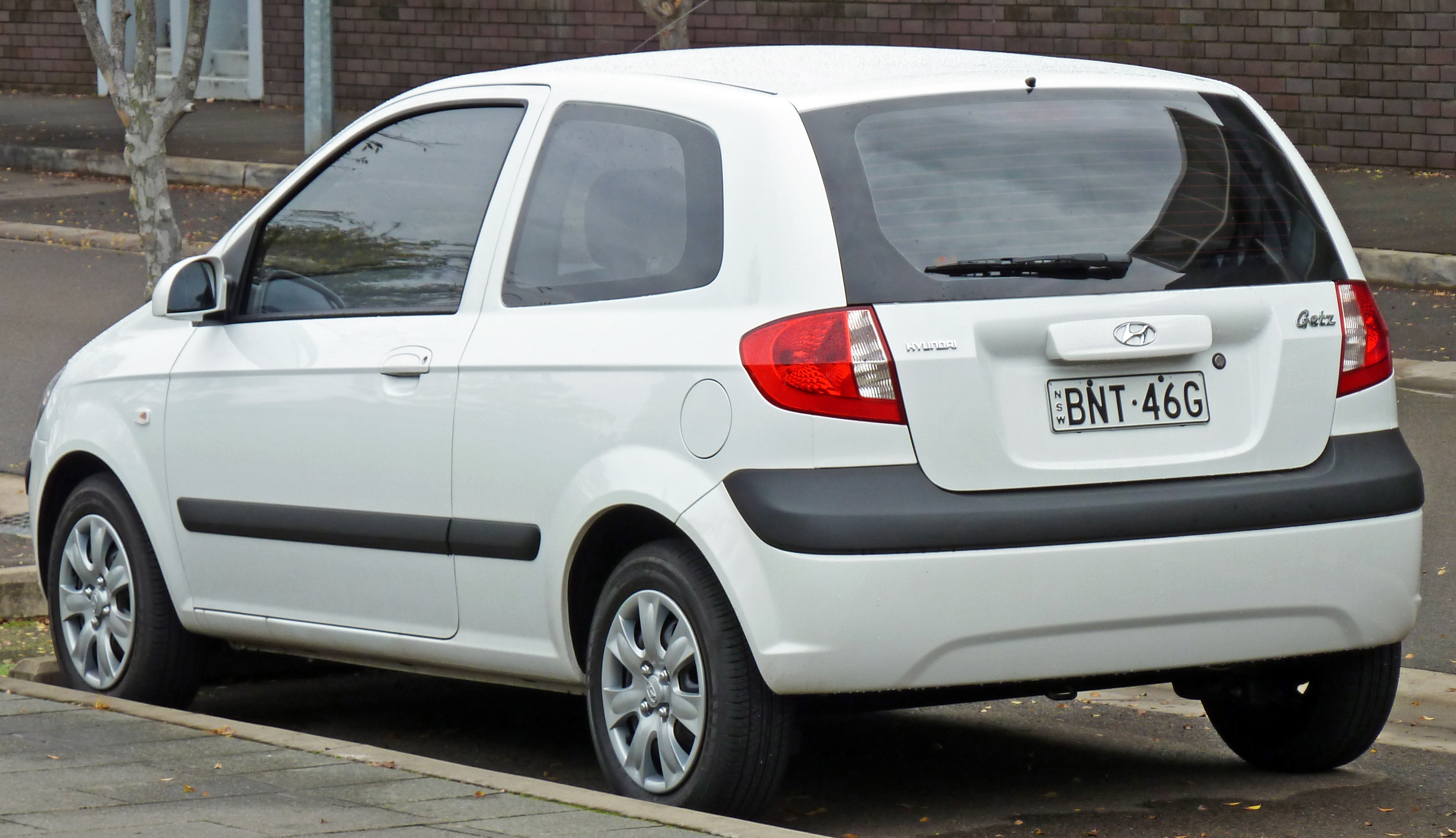 2010 Hyundai Getz (TB MY09) S 3-door hatchback. Photographed in Zetland, New South Wales, Australia.